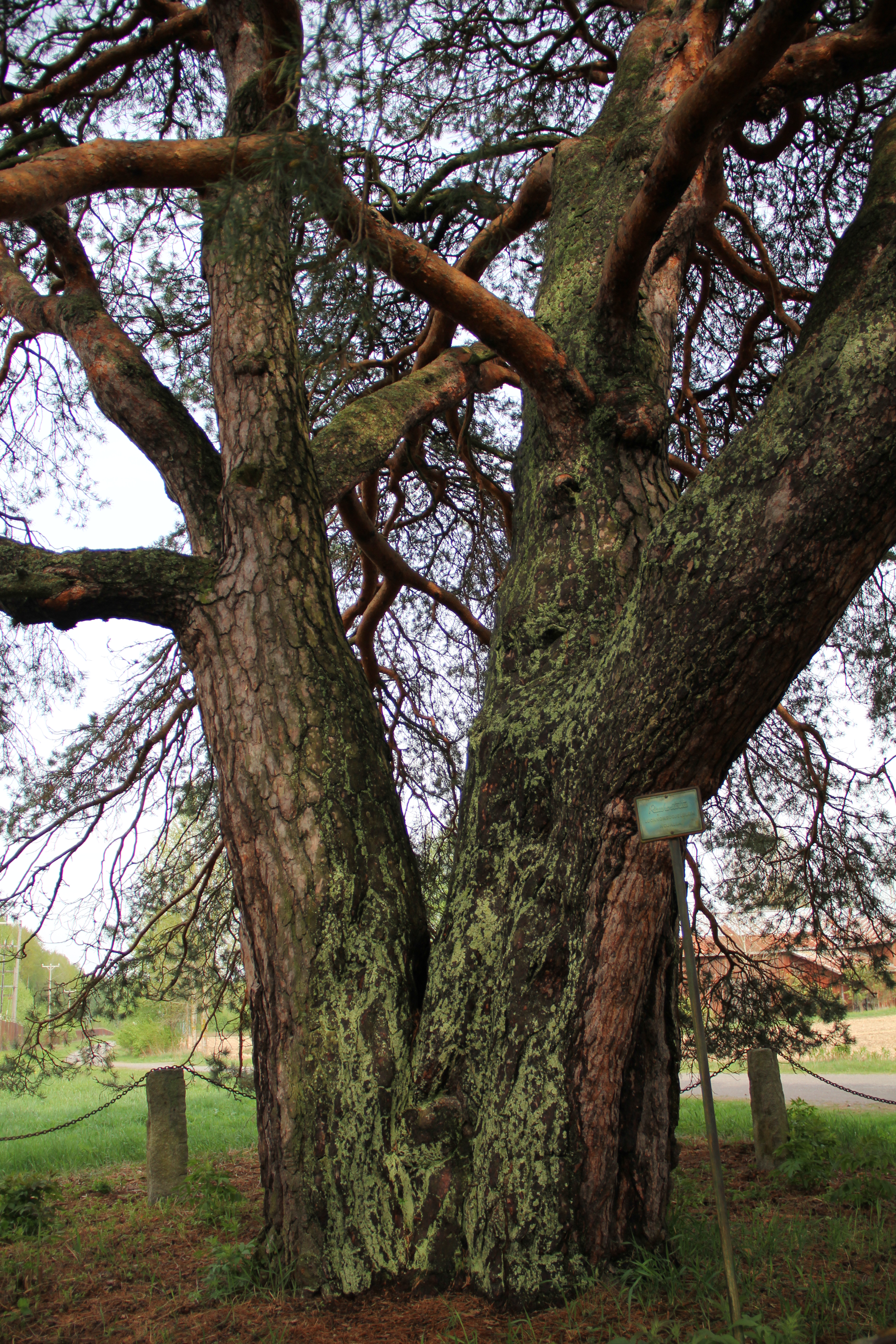 Keisarinmänty ("Emperors pine""), Pinus sylvestris, Pikku-Parola, Hämeenlinna, Finland.